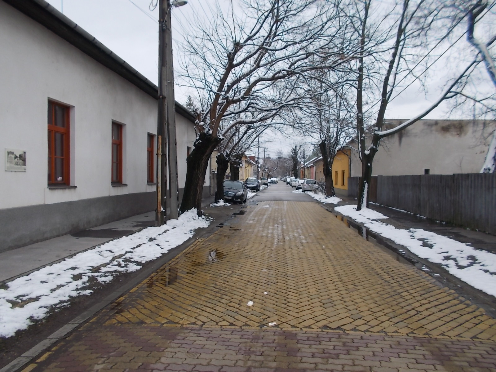 Rákospalota museum on left and the last yellow ceramic paved street. - 81 Pestújhelyi street, Pestújhely neighborhood, 15th District of Budapest.